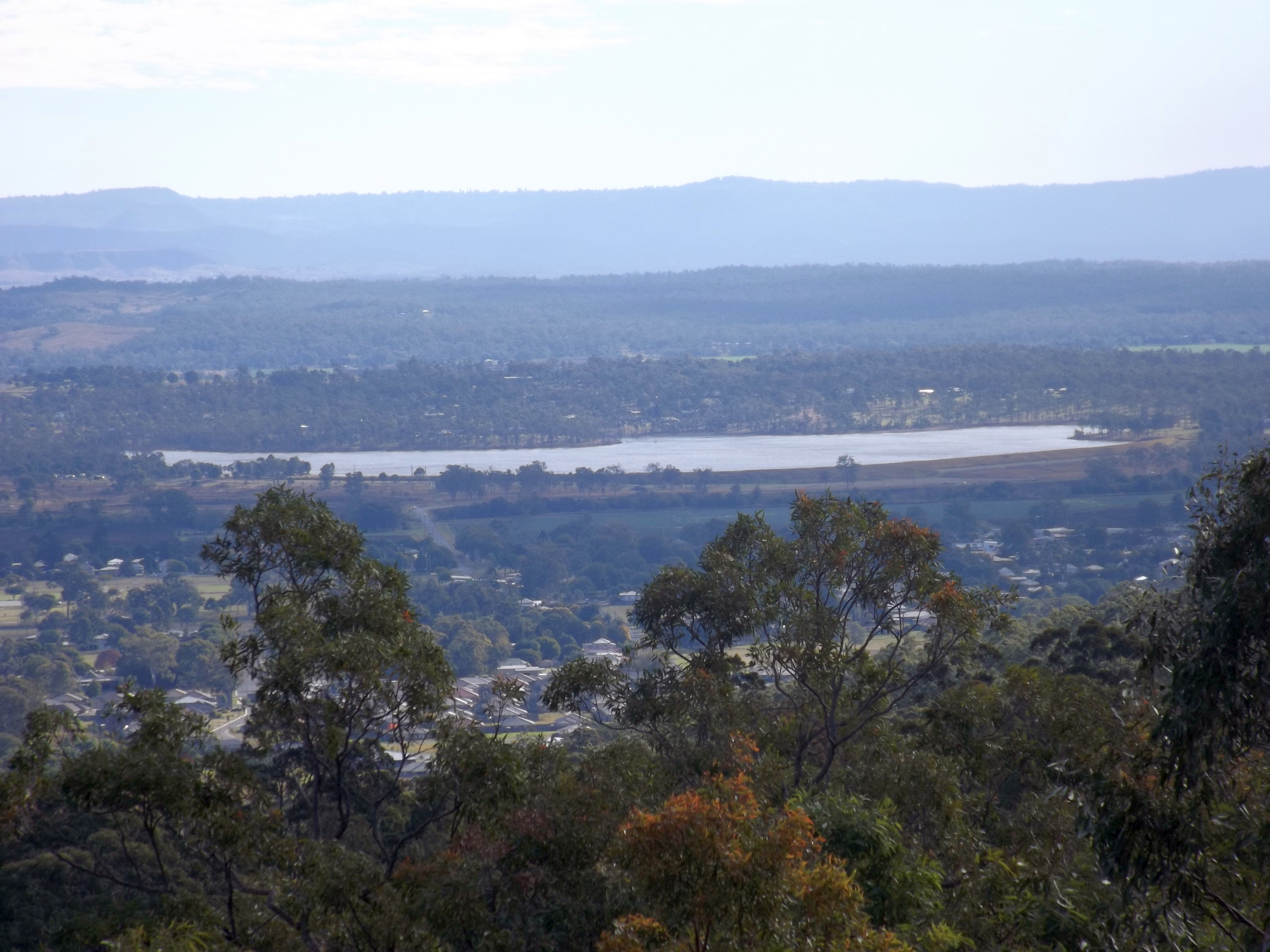 Photo of Bill Gunn Dam from Cunninghams Crest Lookout in Laidley, Lockyer Valley Region, Queensland, Australia.